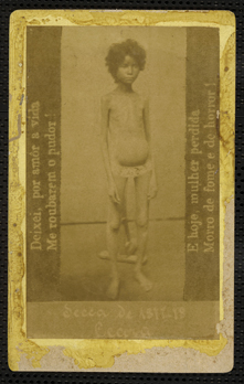 Victim from the drought's periods from 1877/1878 at Ceará - Brazil